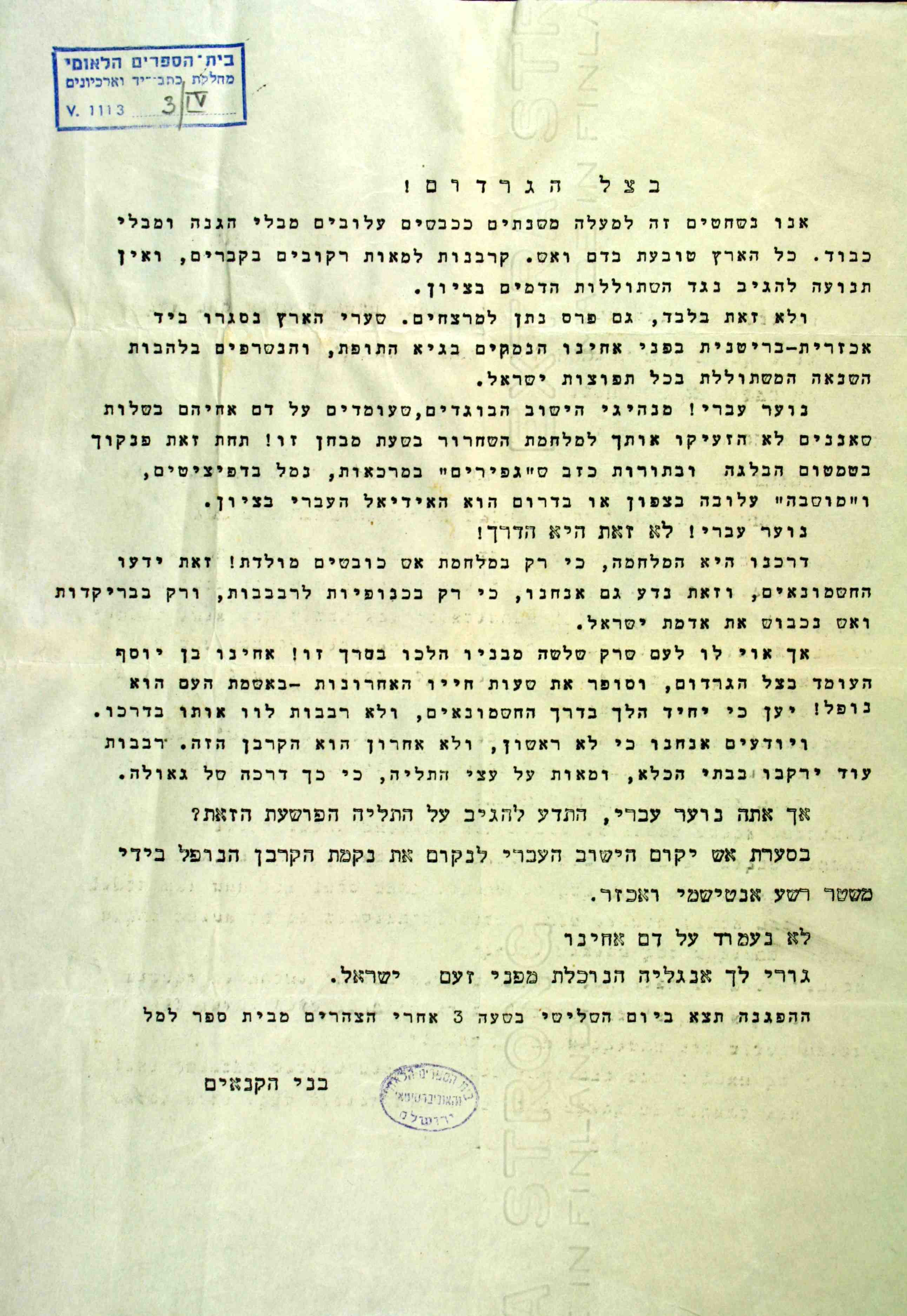 Restraint Havlagah Shlomo-Ben-Yosef